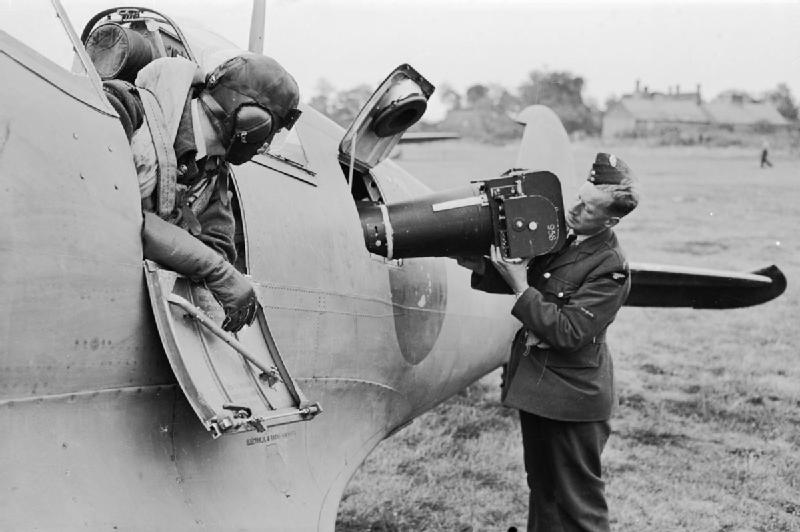 Royal Air Force- Operations by the Photographic Reconnaissance Units, 1939-1945. A Type F.8 Mark II (20-inch lens) aerial camera being loaded into the vertical position in a Supermarine Spitfire PR Mark IV at Benson, Oxfordshire. By the time this photograph was taken, the F.8 had been largely supplanted in operational service in the United Kingdom by the Type F.52, and the aircraft pictured may have been operating in a training role.